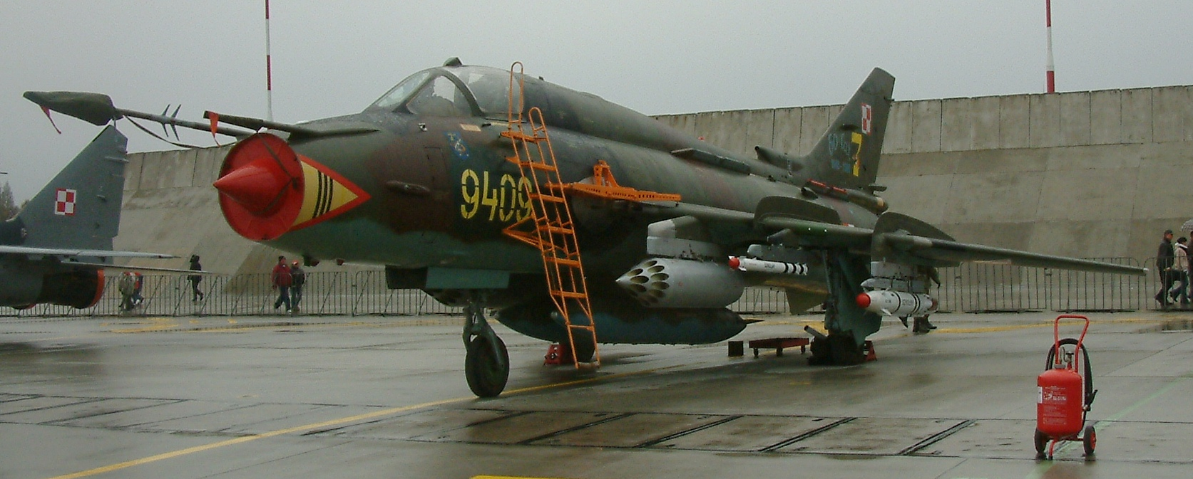 Su-22M4K (Su-17M4K) #9409 of Polish Air Force with markings of 7th Tactical Sqd., 31st. Air Base Poznań-Krzesiny